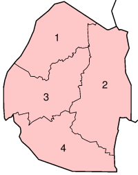 Districts of Eswatini